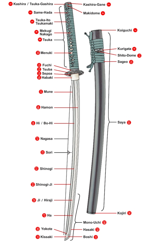 An illustrated glossary of the parts of a Japanese sword blade and mountings (koshirae).